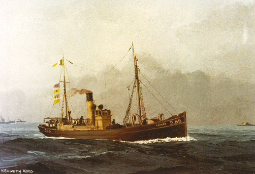 This is a low resolution image of an Oil Painting. (The museum was the final destination during Wikipedia:Meetup/Ireland 1 )